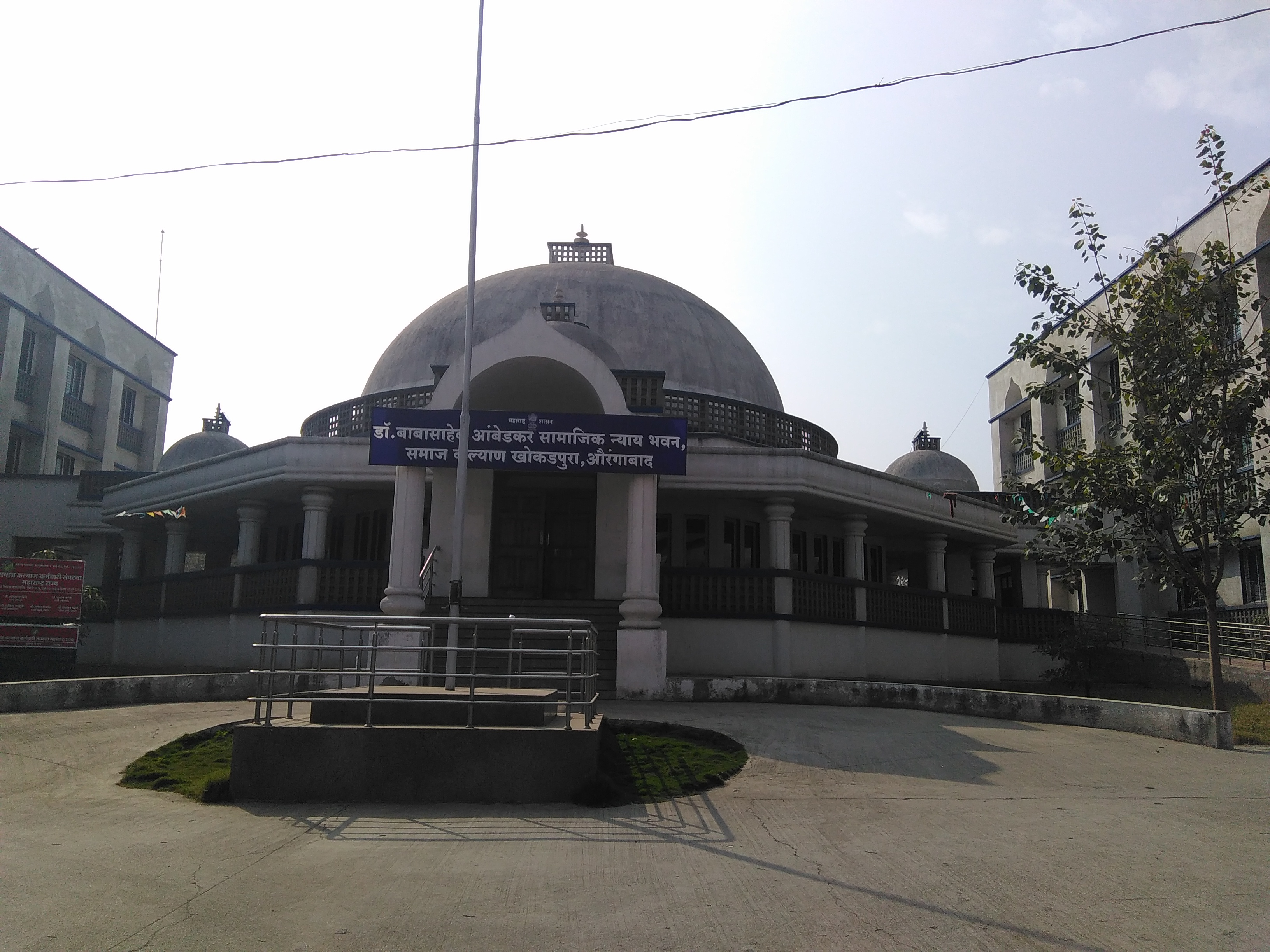 Dr. Babasaheb Ambedkar Samajik Nyay Bhavan, Samaj Kalyan in Khokadpura, Aurangabad city of Maharashtra, India.